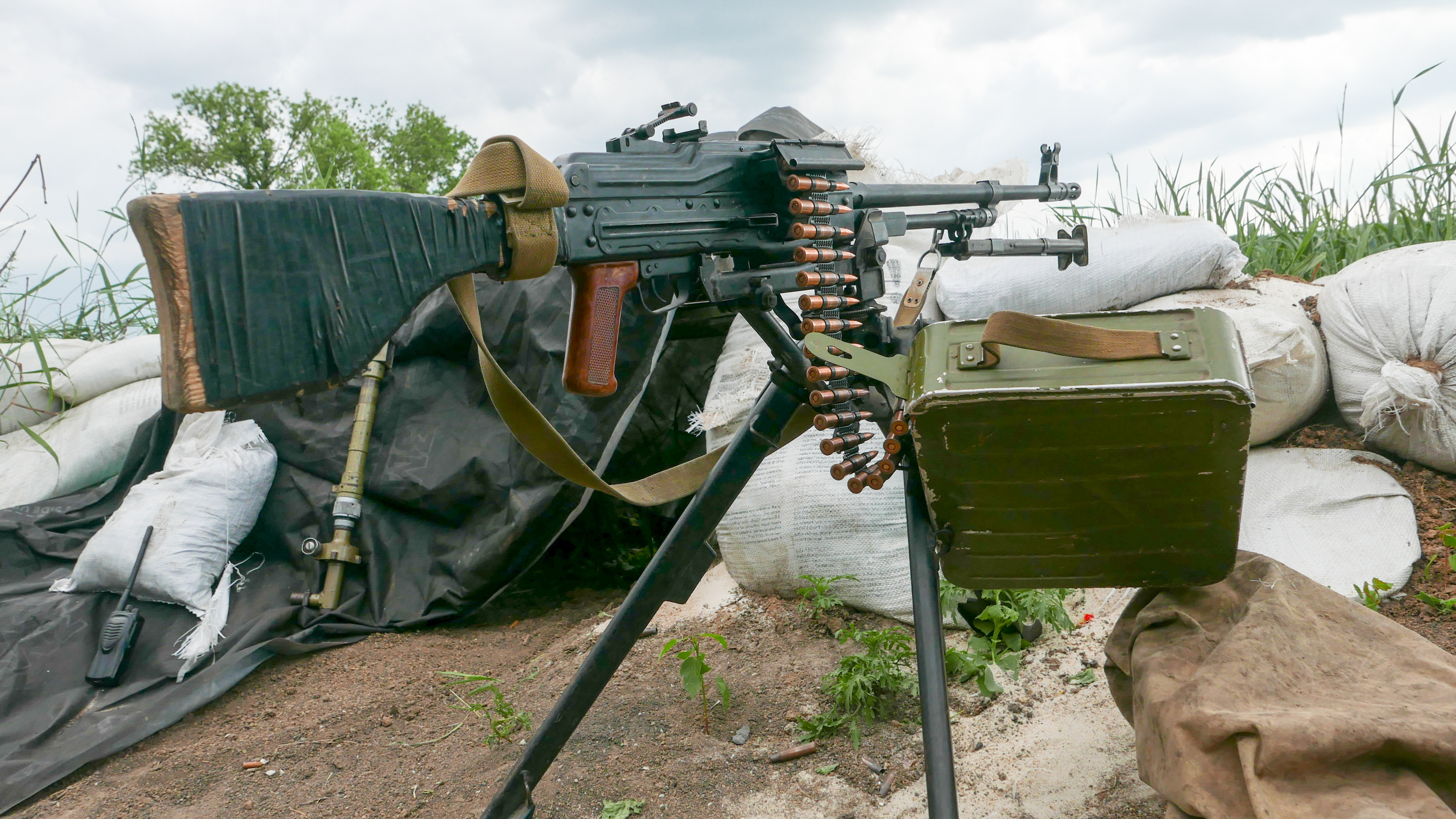 Tripod mounted PKM machine gun with an improvised buttstock repair at Russia-backed rebel position near the division line with Ukrainian army near Dokuchaevsk, eastern Ukraine, Friday, June 5, 2015